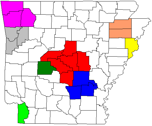 Map of Arkansas' metropolitan areas; created with the GIMP. Made by User:Acntx.